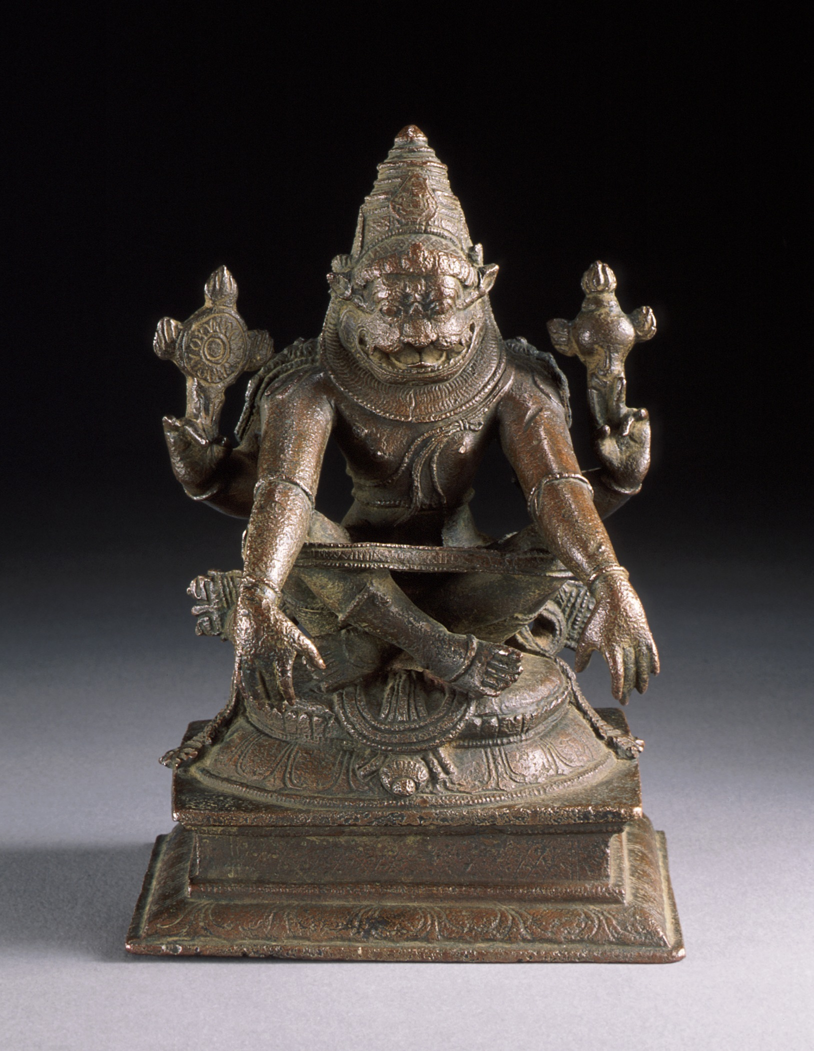 India, Tamil Nadu, 15th century Sculpture Copper alloy 5 1/4 x 3 3/4 x 3 1/4 in. (13.33 x 9.52 x 8.25 cm) Gift of Mr. and Mrs. Werner G. Scharff (M.91.232.8) South and Southeast Asian Art